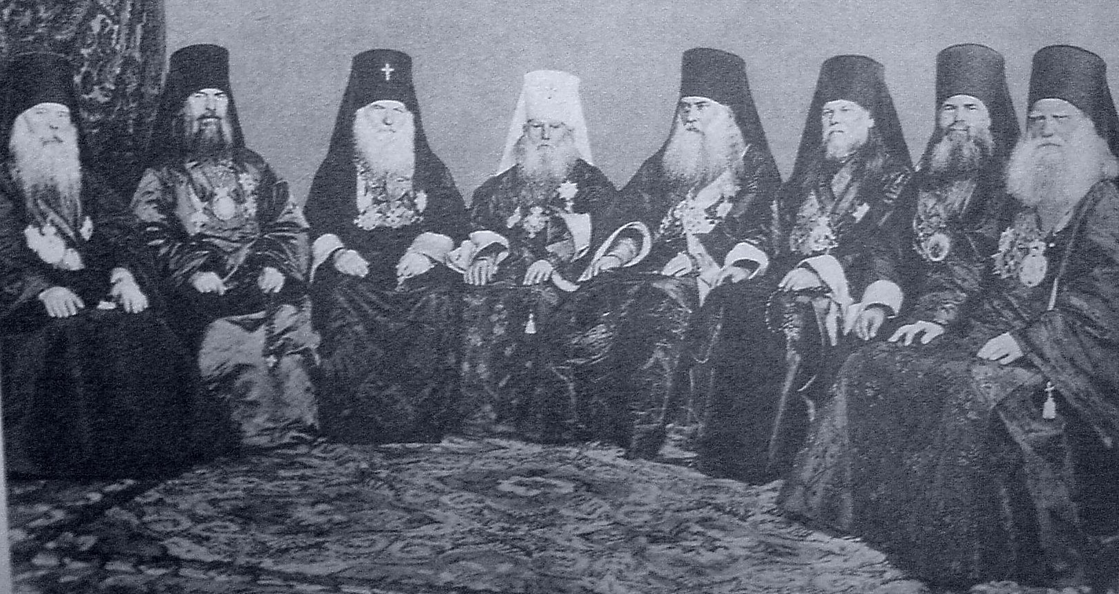 Russian Orthodox bishops assembled to celebrate the anniversary of bishopric kheirotonia of metropolitan Arsenius of Moscow. From the left: John (Pietin), Nectarios (Nadezhdin), Platon (Gorodetski), Arsenius (Moskvin), Dmitry (Muretov), Leontius (Lebedinsky), Theodosius (Makarevsky) and Porphirius (Uspensky)